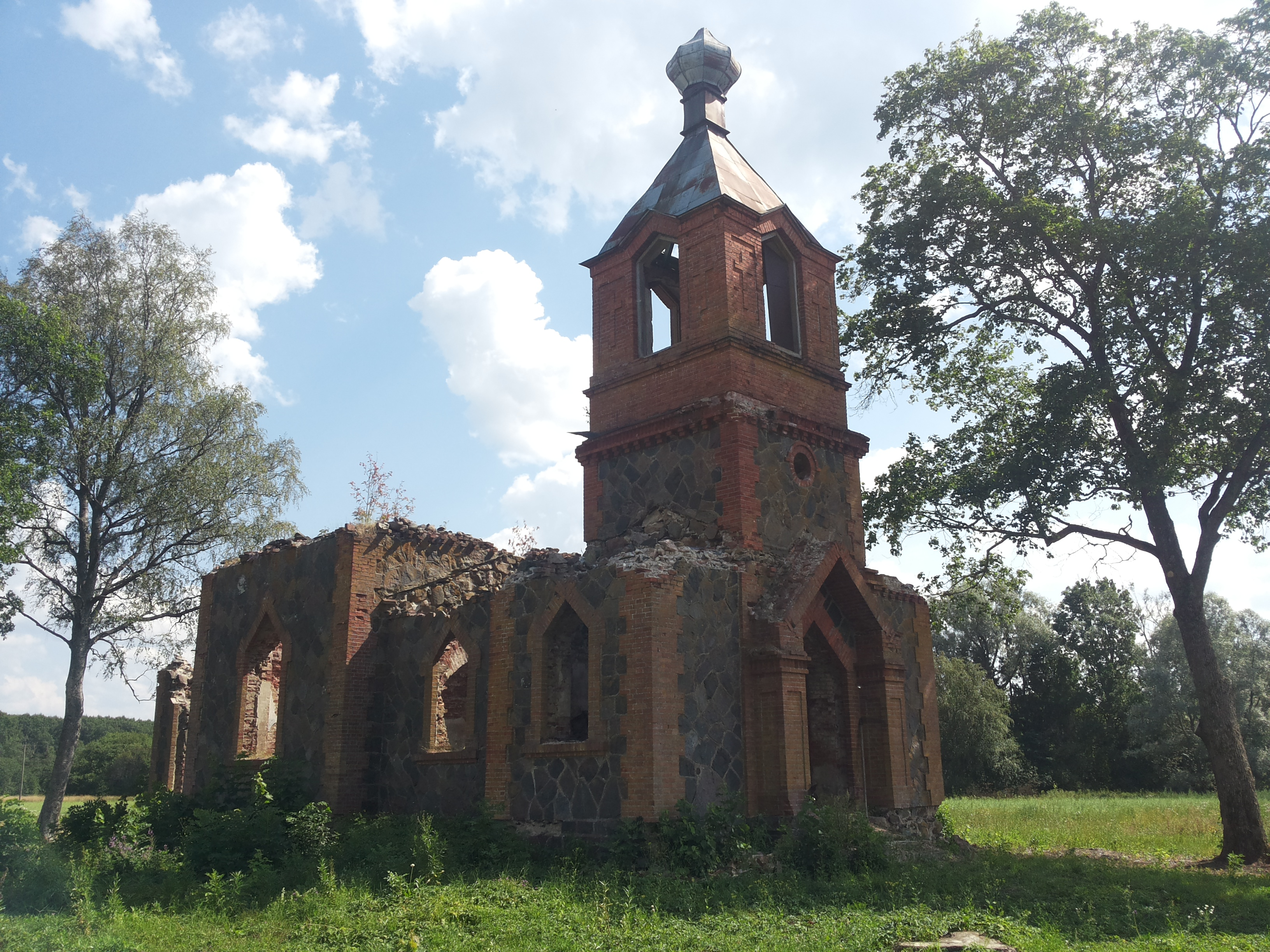 Orthodox Church of Saint Nicholas in Silla village, Kullamaa Parish of Lääne County